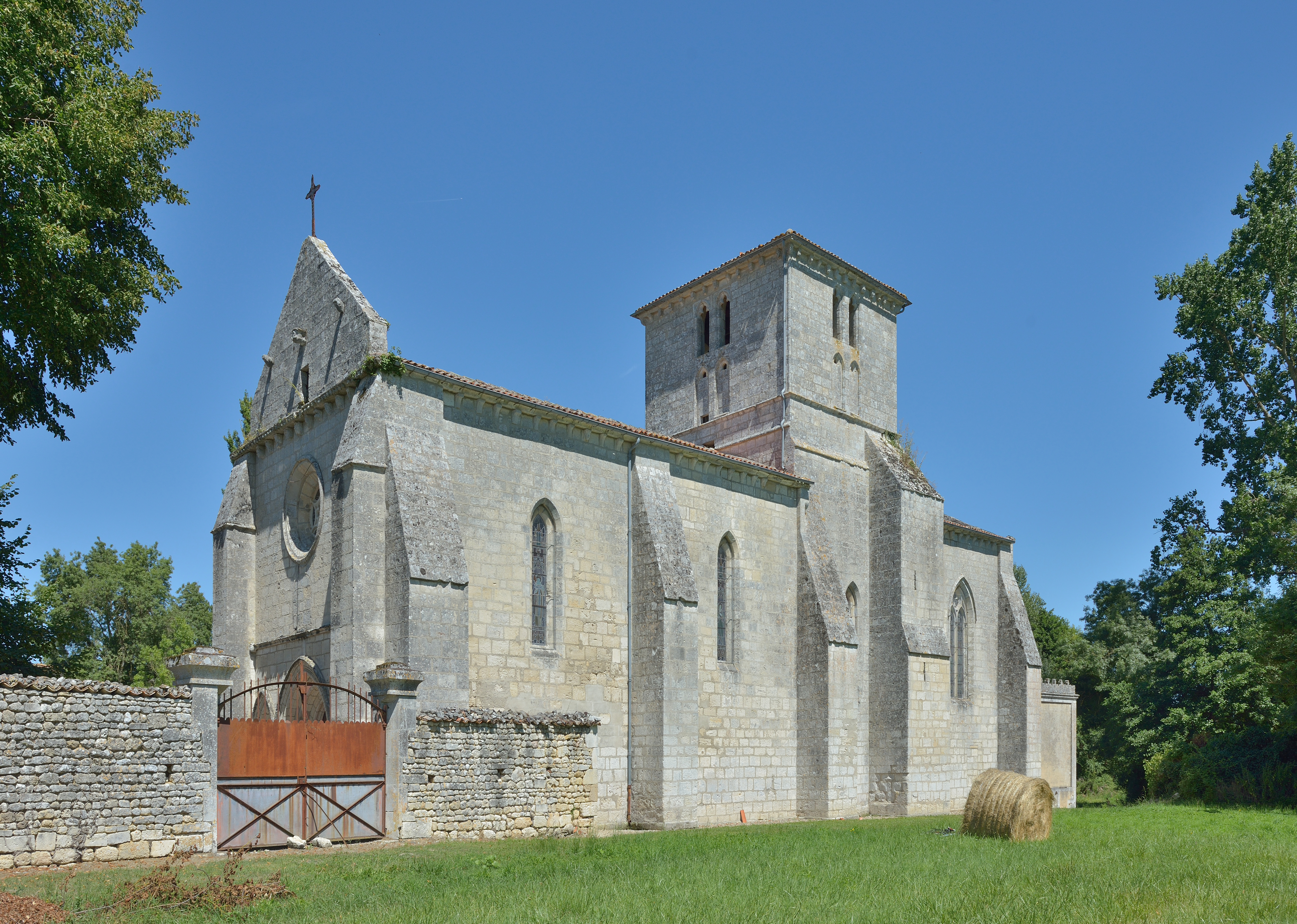 Saint-Pierre church in Angeac in France